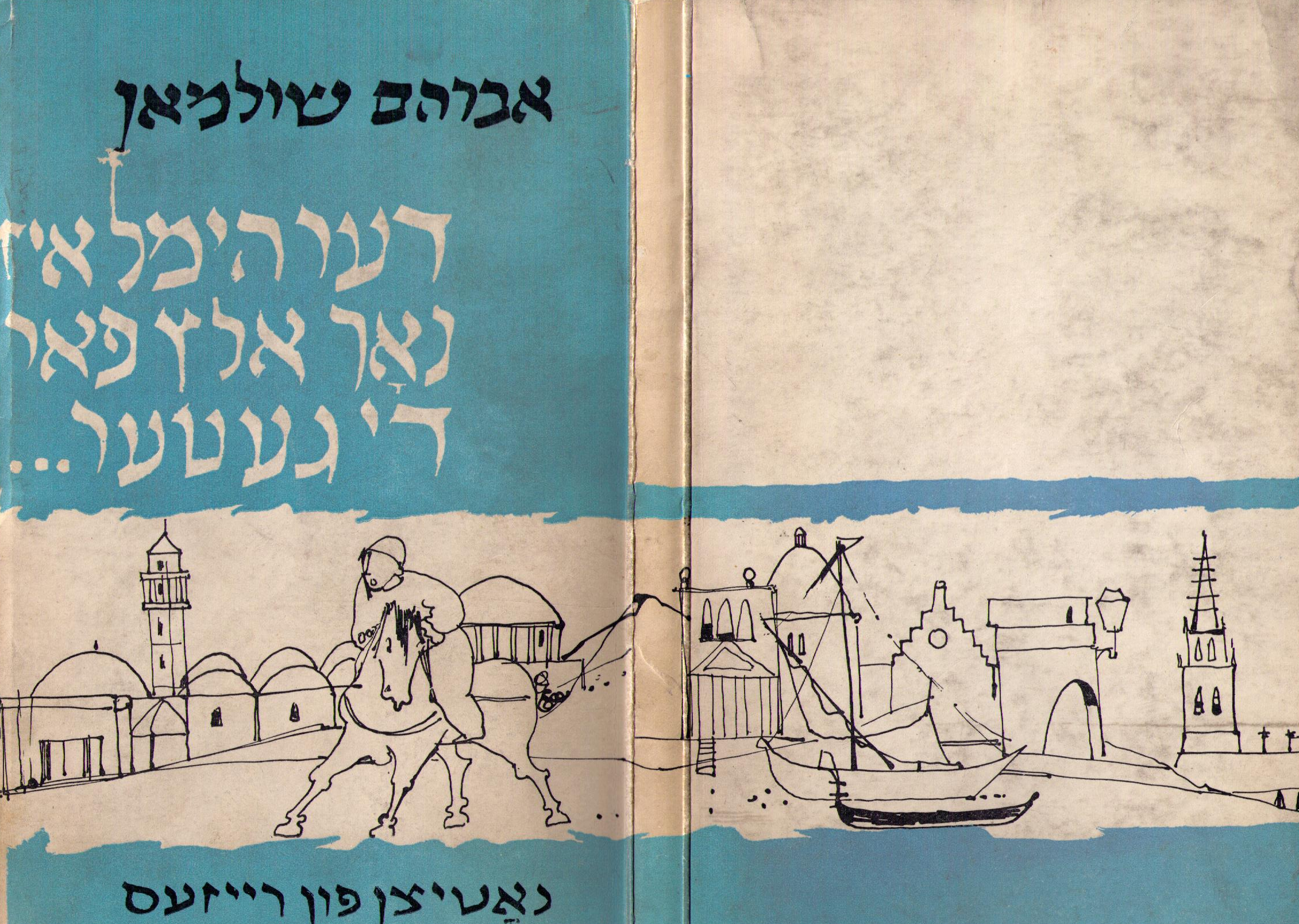 Cover of "Der himl iz noch altz far di geter. Notitzn fun reizes" (jiddish), 1960, Paris, by Abraham Shulman